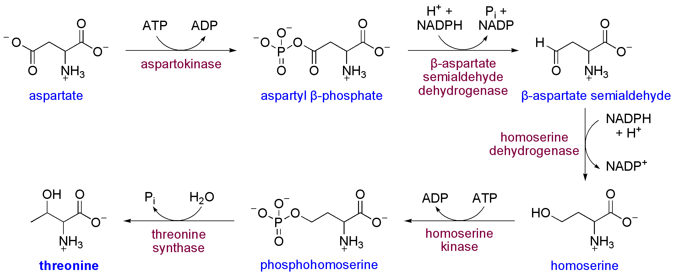 Biosynthesis of threonine.